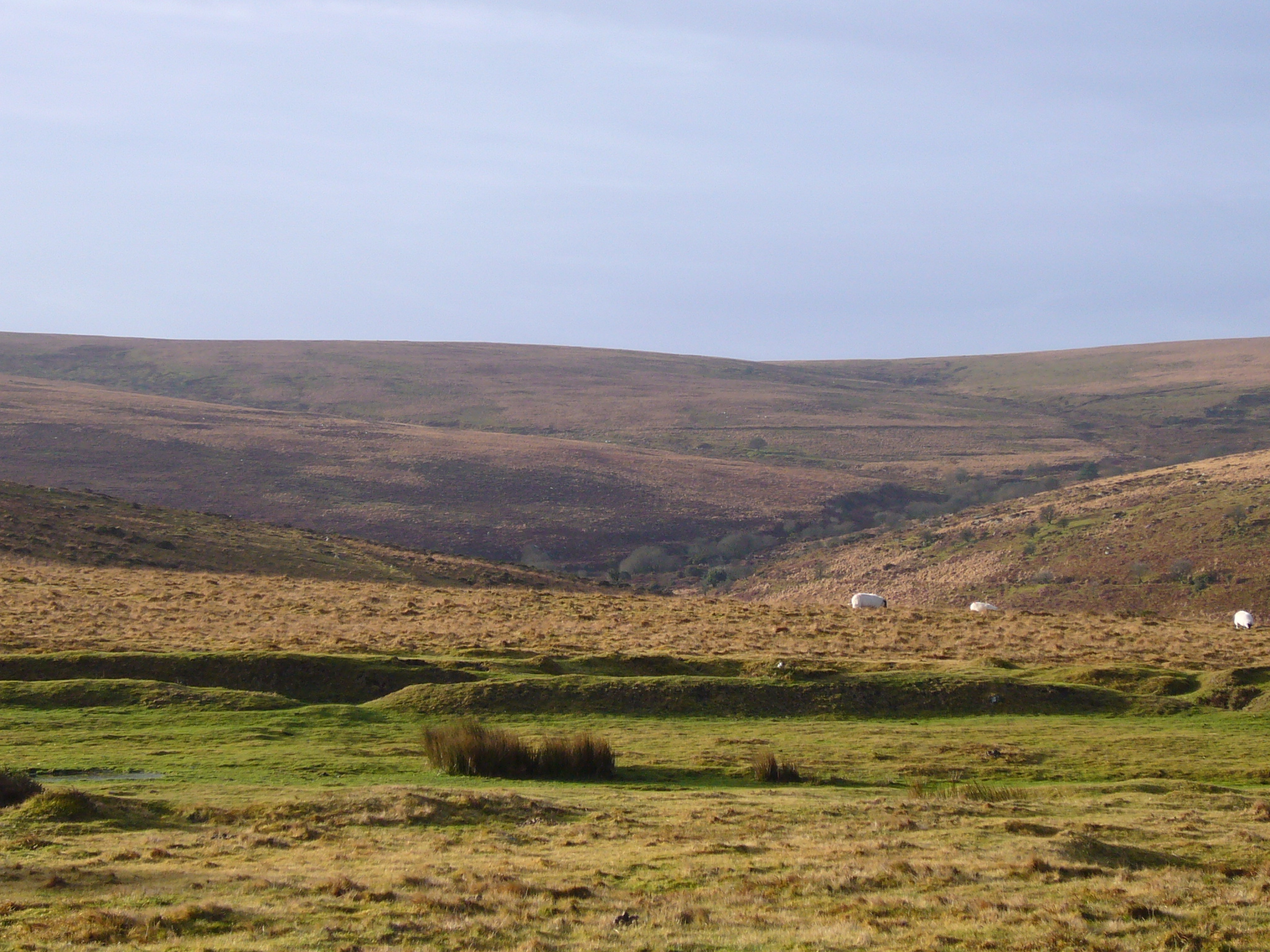 Valley of the O Brook, south west side of Dartmoor (Devon)